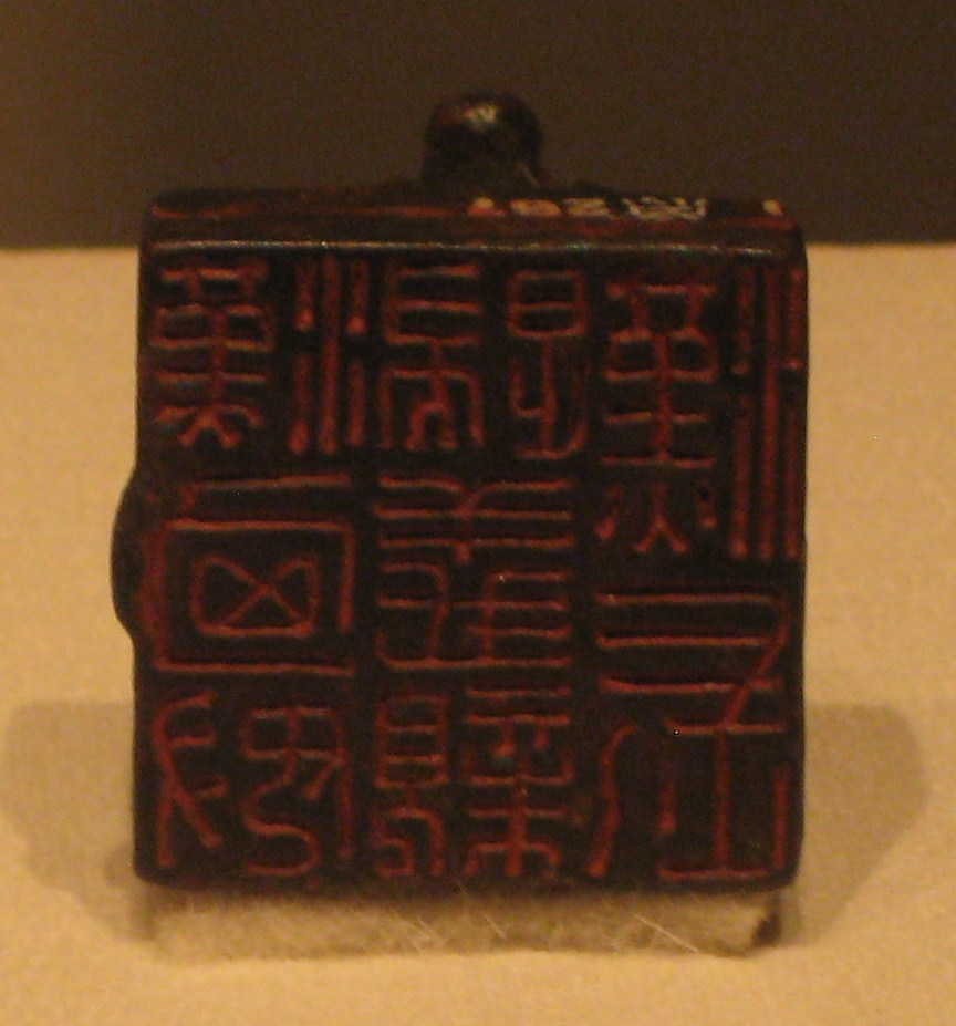 Bronze seal inscribed 漢匈奴歸義親漢長 from the Eastern Han Dynasty. Unearthed at Shangsunjiazhai, Datong, Qinghai Province, 1979. This is an official seal conferred by the Han government on a Xiongnu chief.